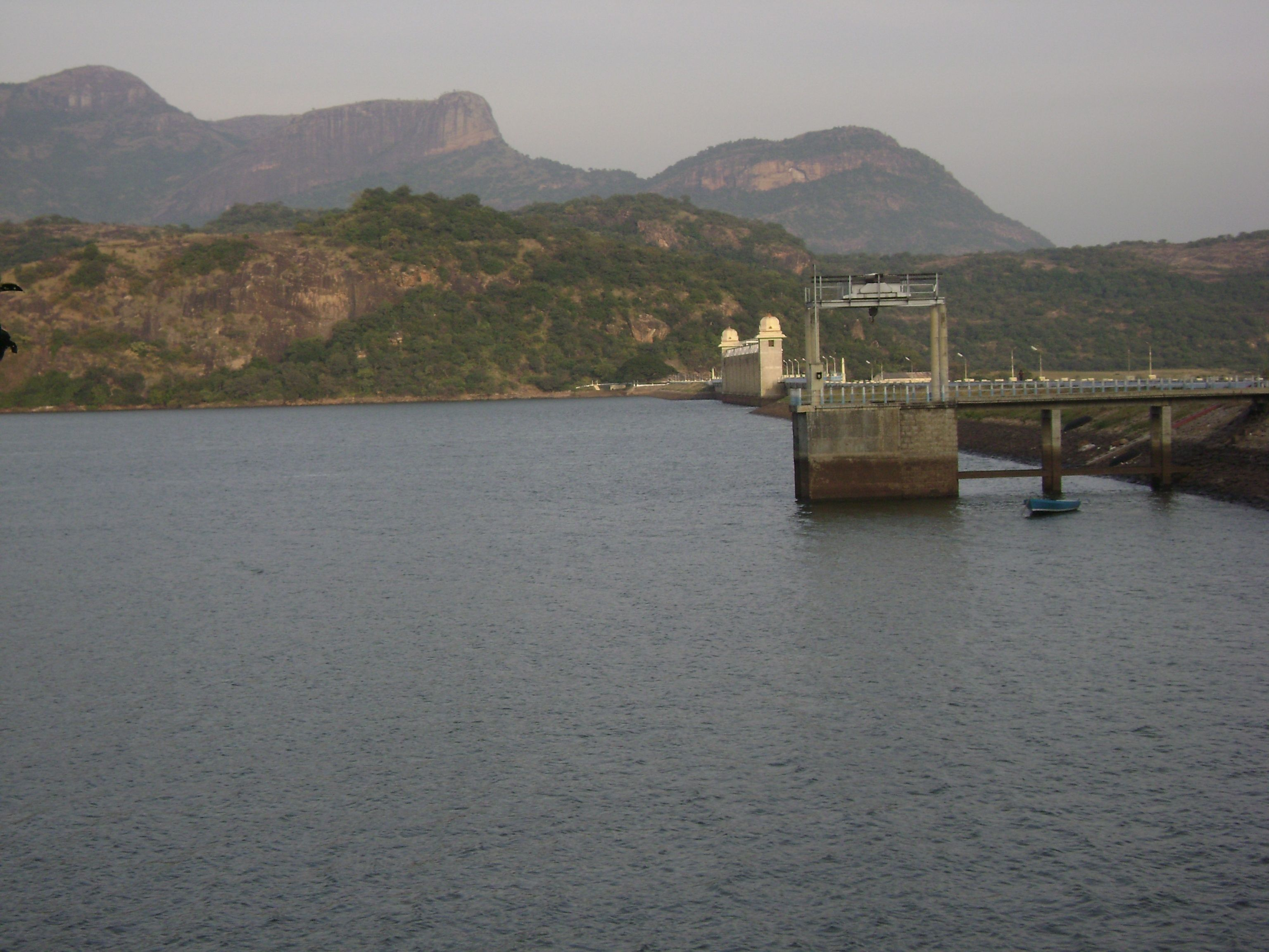 Amaravathi Reservoir & dam from south shore looking north-west to Anaimalai Hills